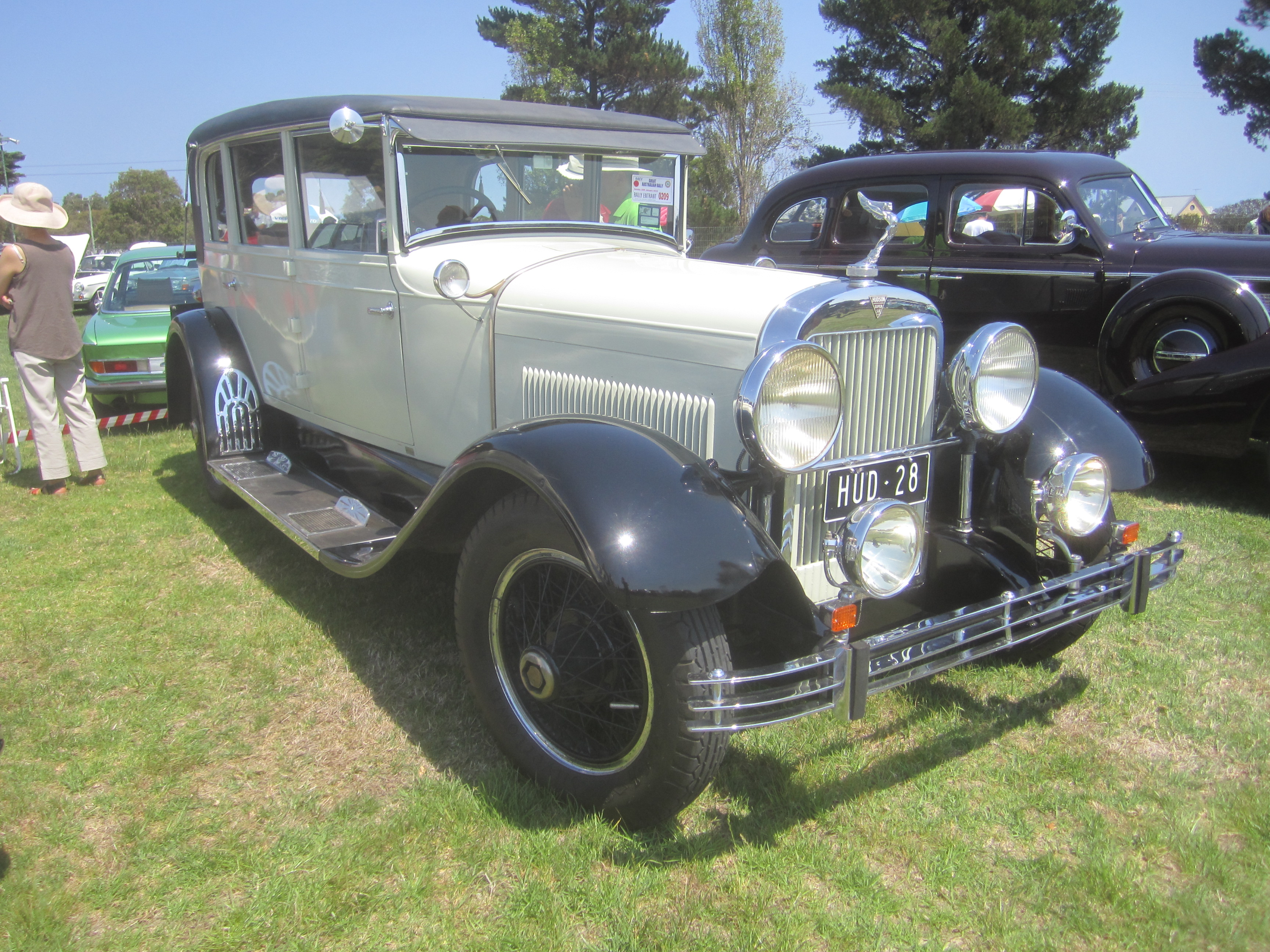 The Hudson redesign for 1928 featured a high, more slender radiator, larger headlights and vertical radiator louvers, all providing the car with a more elegant appearance. A 92 horsepower, 'Super Six' 6 cylinder motor was mounted on the 127 wheelbase chassis